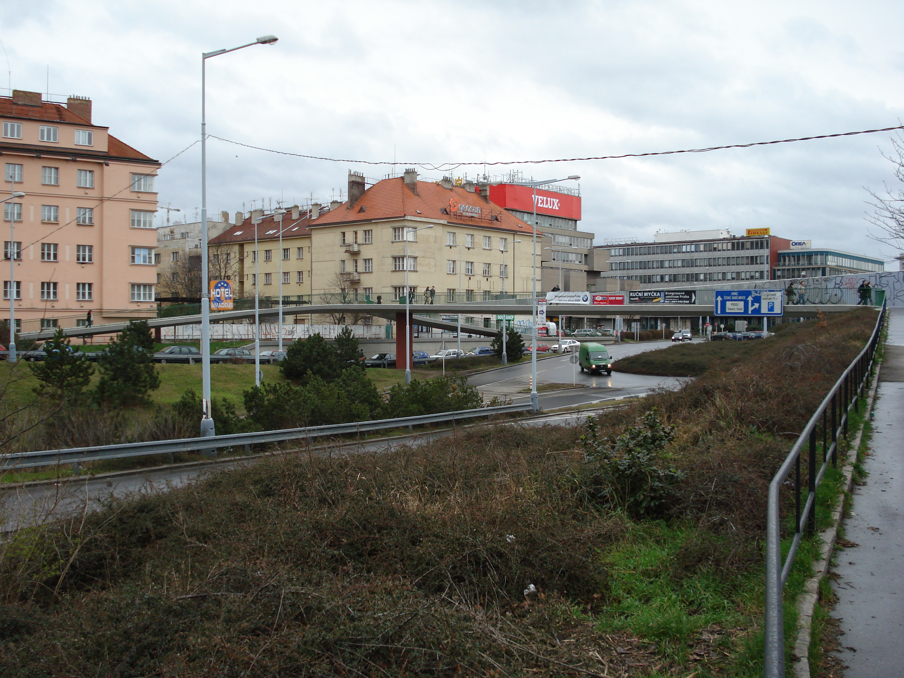 pedestrial bridge at Congress Center Prague (Czechia)